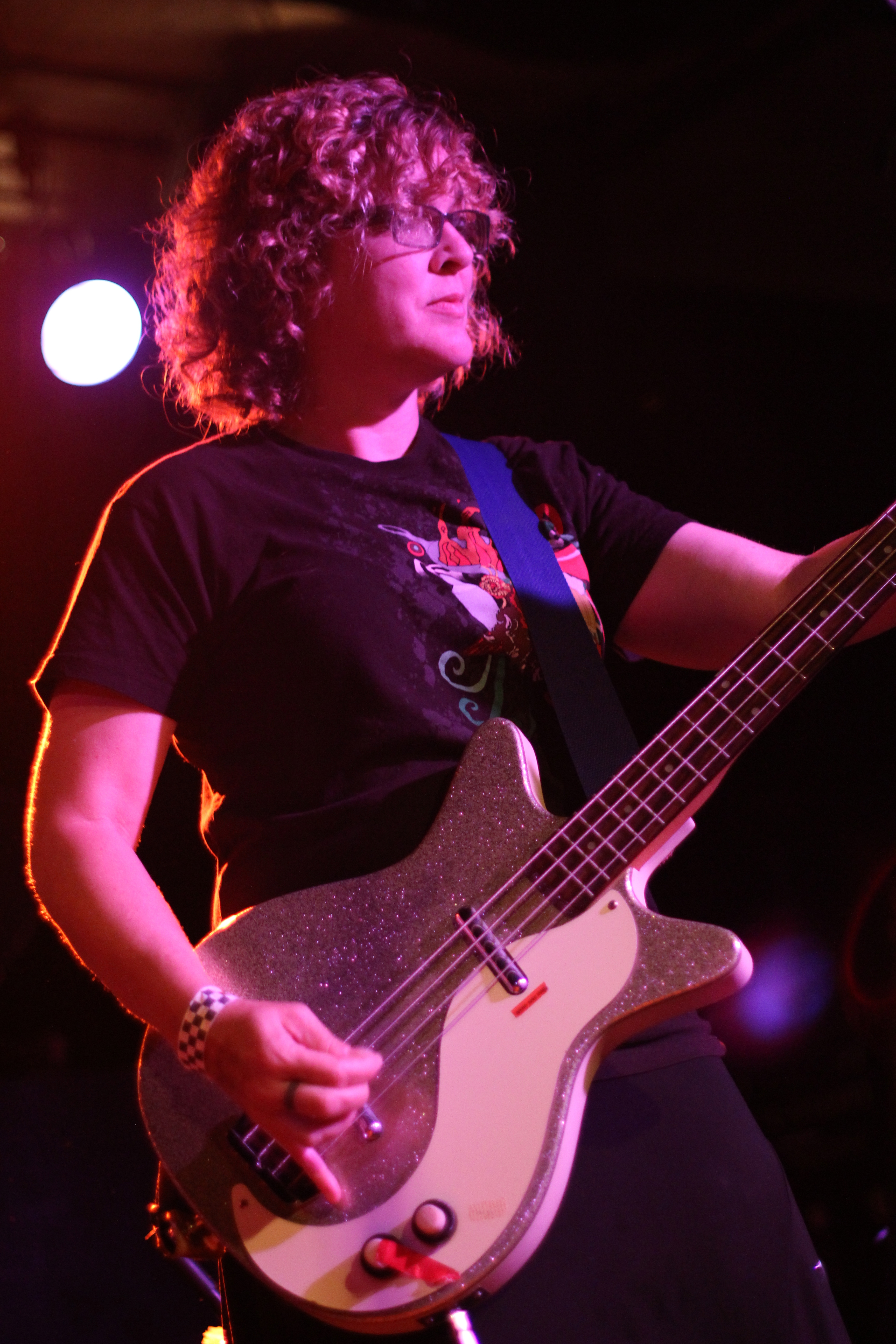 Lynda Stipe playing bass guitar. Photographed by Chris Sikich